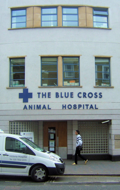 Blue Cross Animal Hospital, Hugh Street, London SW1 The Blue Cross was established in 1897 as "Our Dumb Friends' League" and by the following year had opened 22 animal hospitals across the UK. The Victoria Hospital shown here was built in 1906 and expanded in 1975.